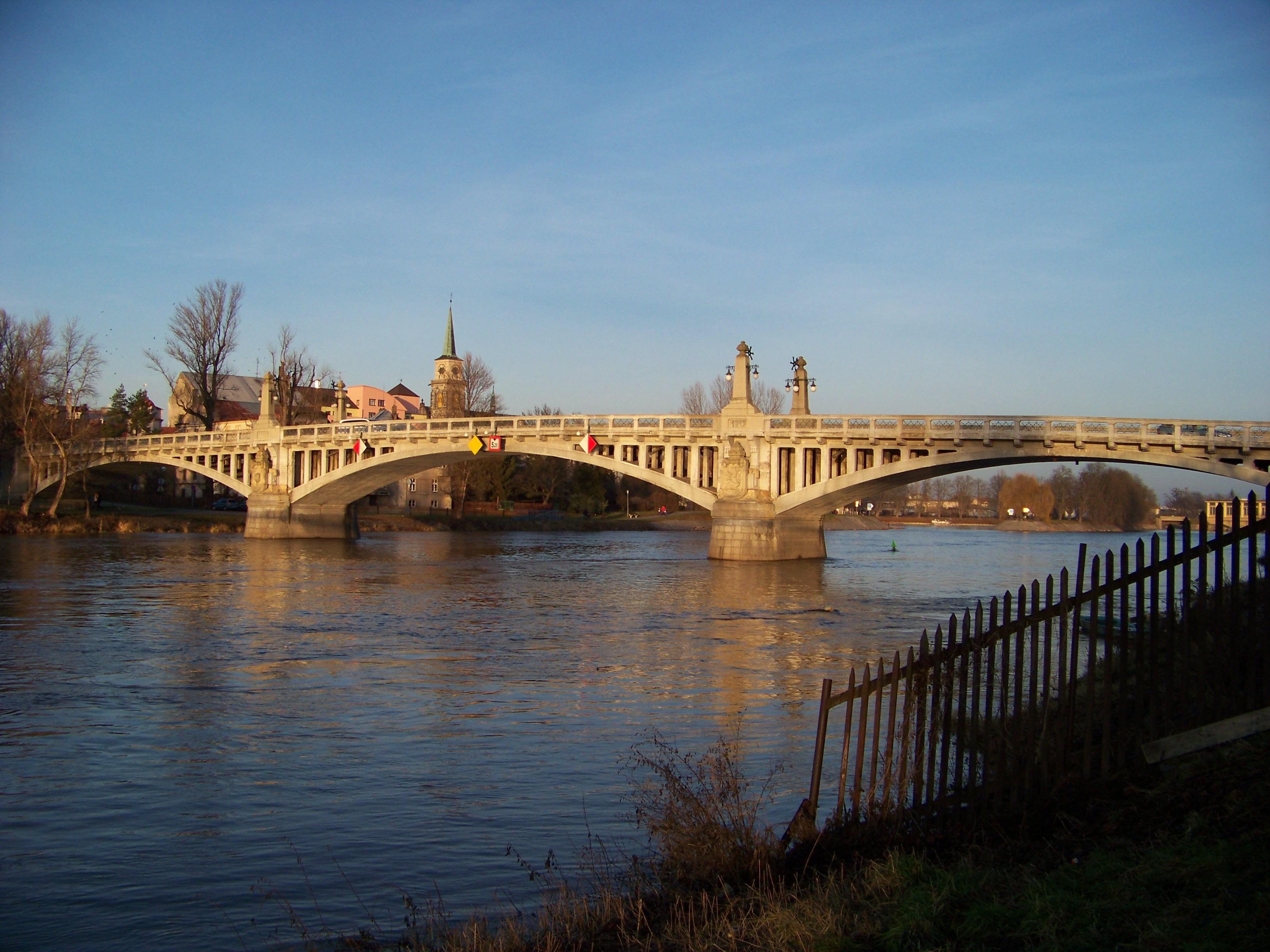 Nymburk, Nymburk District, Central Bohemian Region, Czech Republic. Elbe river with the bridge. - OpenStreetMap(Info)